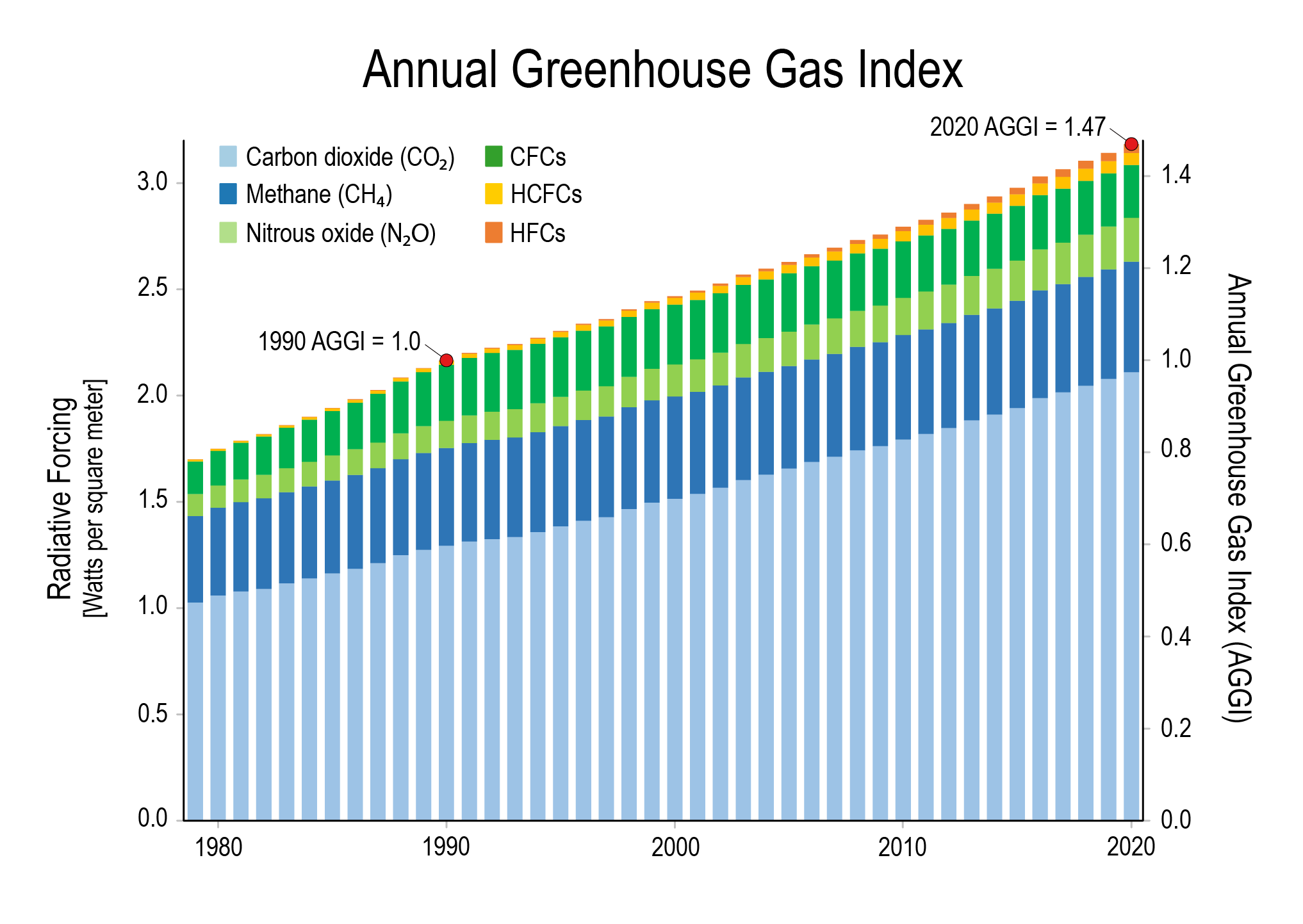 Warming influence of greenhouse gases is increasing The warming influence of greenhouse gases in the atmosphere has increased substantially over the last several decades. In 2019, the Annual Greenhouse Gas Index (AGGI) was 1.45, which represents an increase of 45% since 1990. Carbon dioxide remains the largest contributor to the increase. Radiative forcing (shown on the left vertical axis) is the change in the amount of solar radiation, or energy from the sun, that is trapped by the atmosphere and remains near Earth. When radiative forcing is greater than zero, it has a warming effect; when it is less than zero, it has a cooling effect. In this indicator, radiative forcing from long-lived greenhouse gases is shown relative to the year 1750. AGGI (shown on the right vertical axis) is an index of radiative forcing normalized to the year 1990 (represented by a red dot); it shows that the warming influence of long-lived greenhouse gases in the atmosphere increased by 45% between 1990 and 2019. About Annual Greenhouse Gas Index: This index follows the change in radiative forcing resulting from changing concentrations of twenty long-lived greenhouse gases: carbon dioxide (CO₂) methane (CH₄) nitrous oxide (N₂O) chlorofluorocarbons (CFC-11 and CFC-12) a set of 15 minor, long-lived halogenated gases Radiative forcing of each gas was calculated by the National Oceanic and Atmospheric Administration (NOAA) based on the measured concentrations of each gas in the atmosphere, compared with the concentrations that were present around 1750, before the Industrial Revolution began. Because each gas has a different ability to absorb and emit energy, this indicator converts the changes in greenhouse gas concentrations into a measure of the total radiative forcing (warming effect) caused by each gas. Radiative forcing is calculated in watts per square meter, which represents the size of the energy imbalance in the atmosphere.